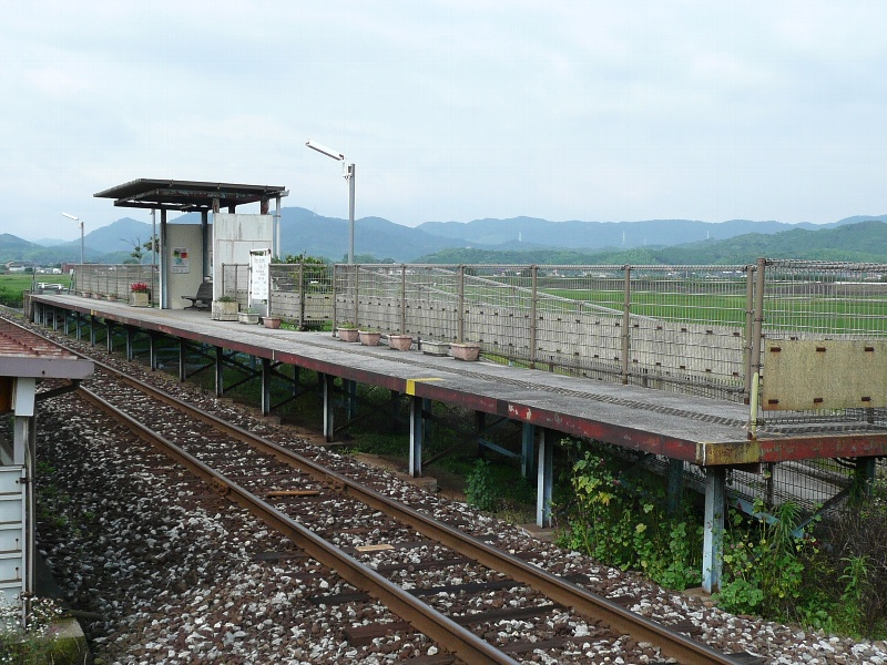 Higashi saigawa sanshiro station